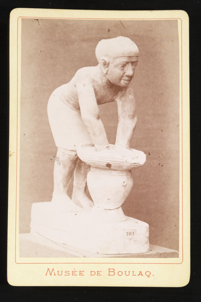 Statue of man making pottery